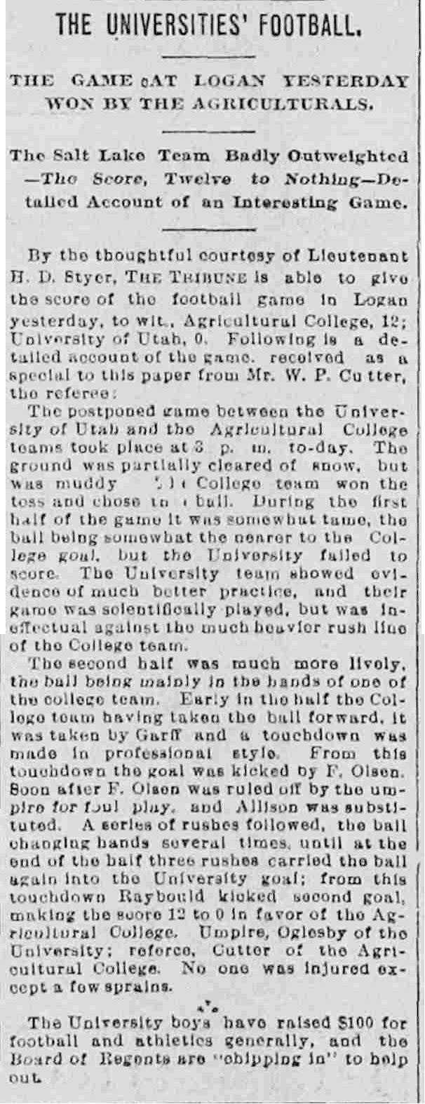 An article from the Nov. 26, 1892 issue of the Salt Lake Tribune newspaper reporting on the inaugural football game between the University of Utah and Utah State Agricultural College